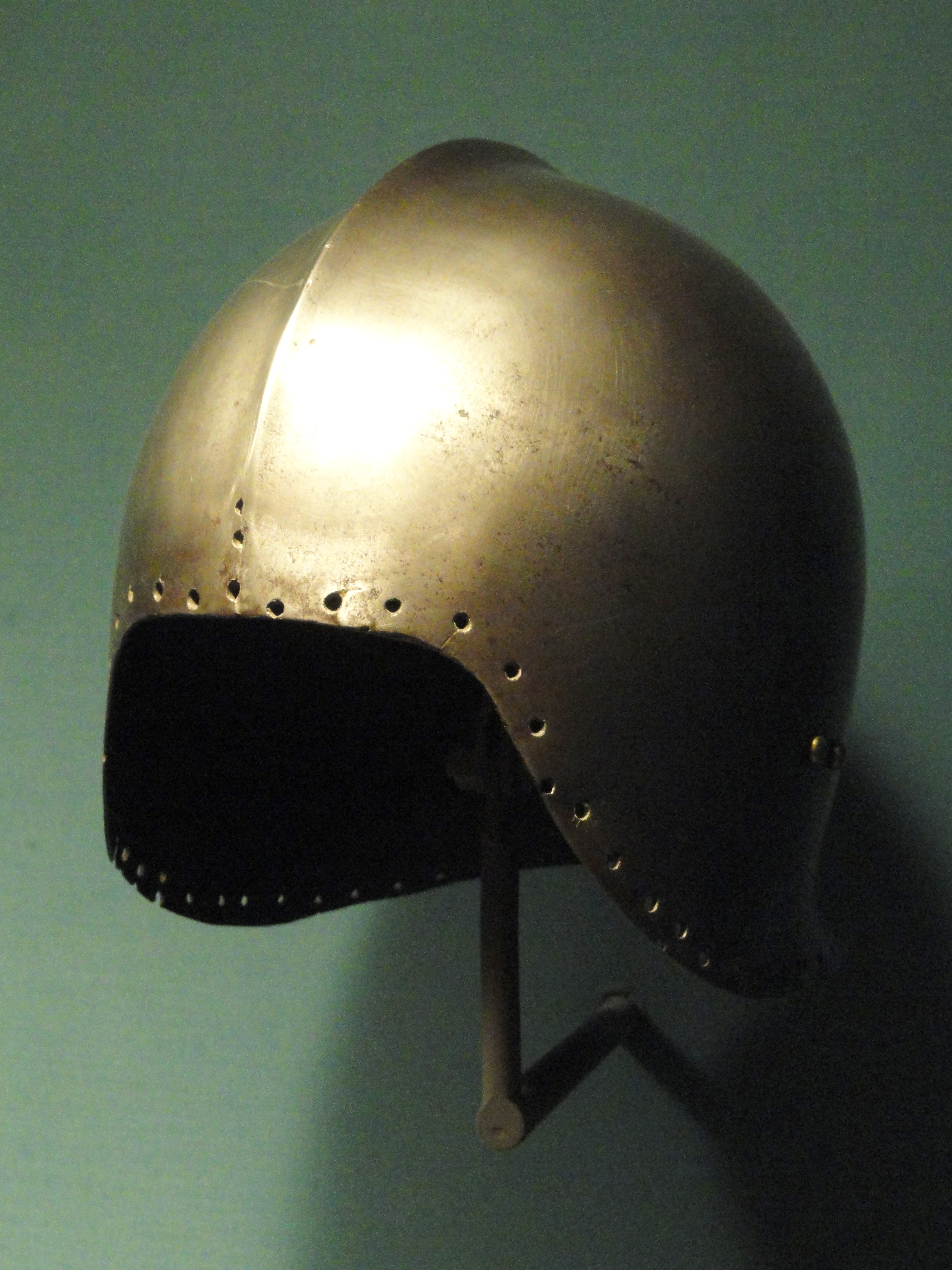 Exhibit in the Nelson-Atkins Museum of Art, Kansas City, Missouri, USA. ; I took this photograph and release it into the public domain.